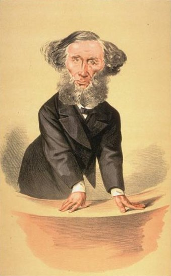 Caricature of John Tyndall. Caption read "The Scientific Use of the Imagination".